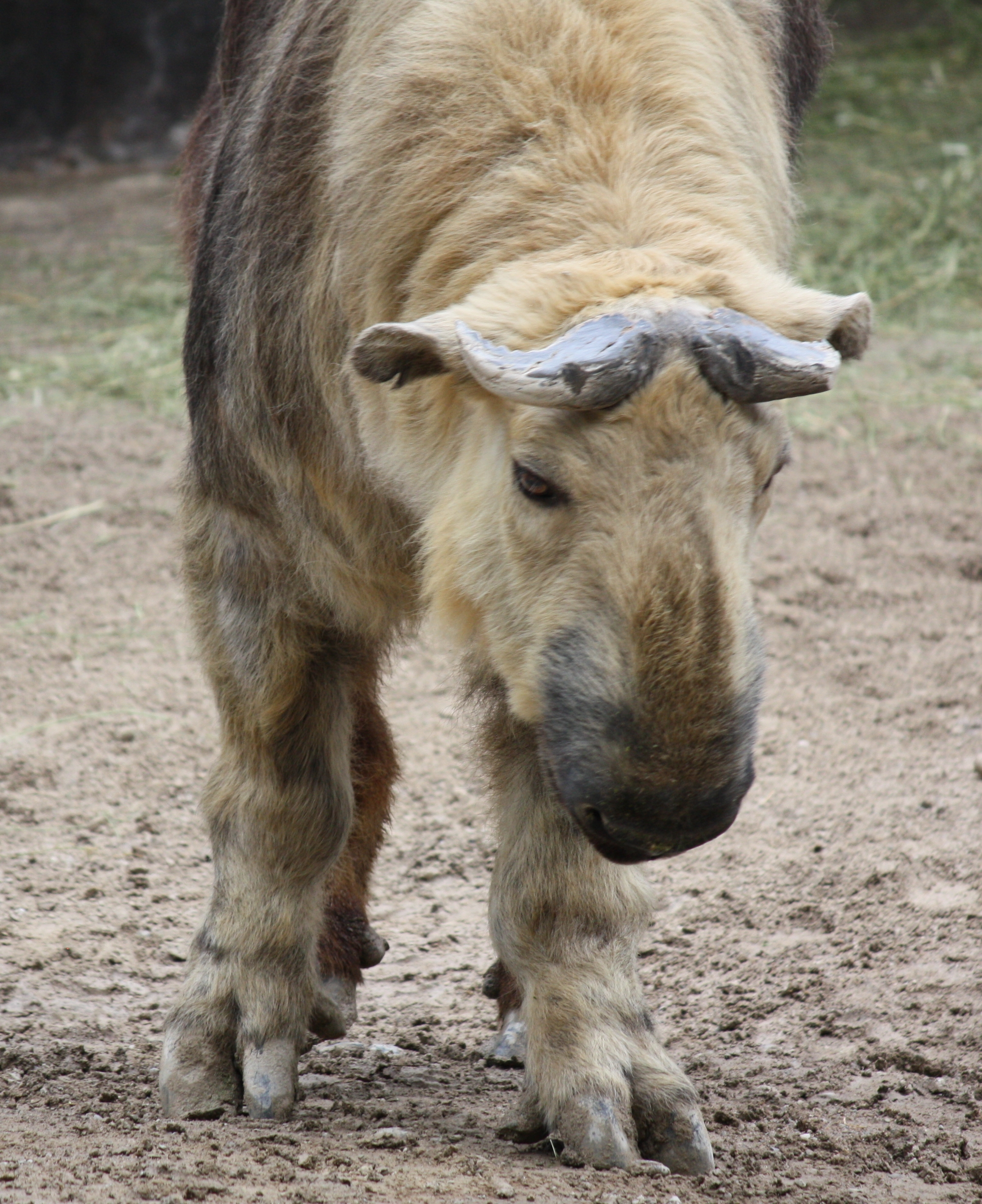 Sichuan Takin Budorcas taxicolor tibetana at Cincinnati Zoo